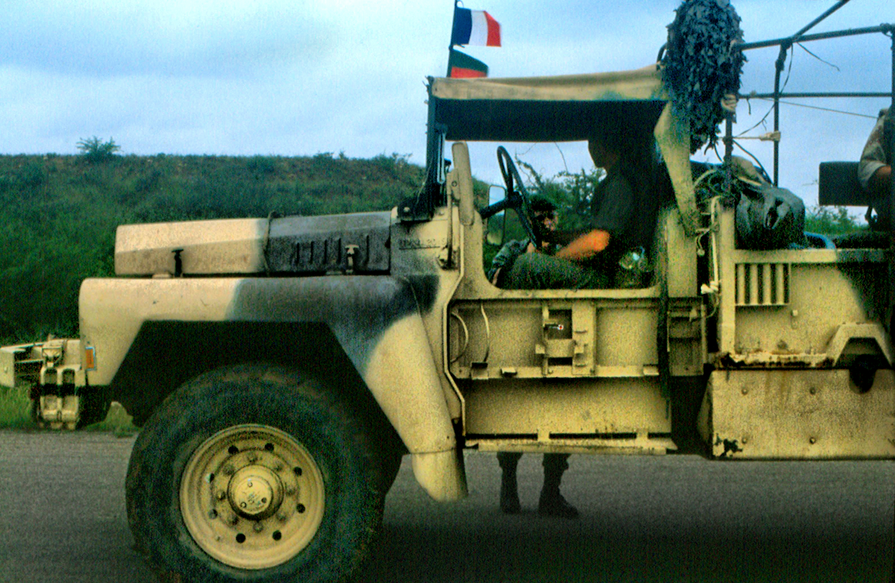 French legionaires outside of Kismaayo.